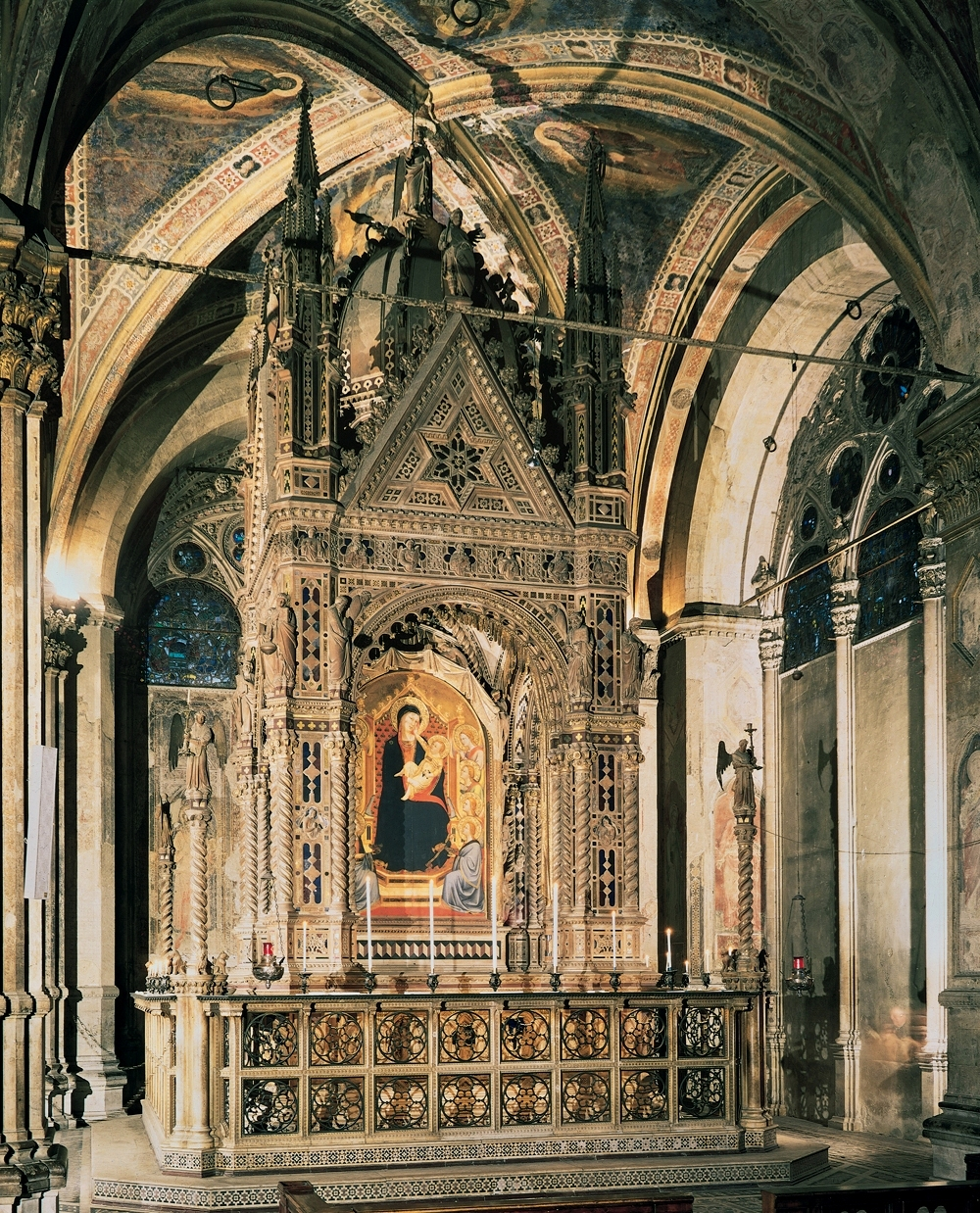 Andrea Orcagna’s tabernacle. Orsanmichele. Florence